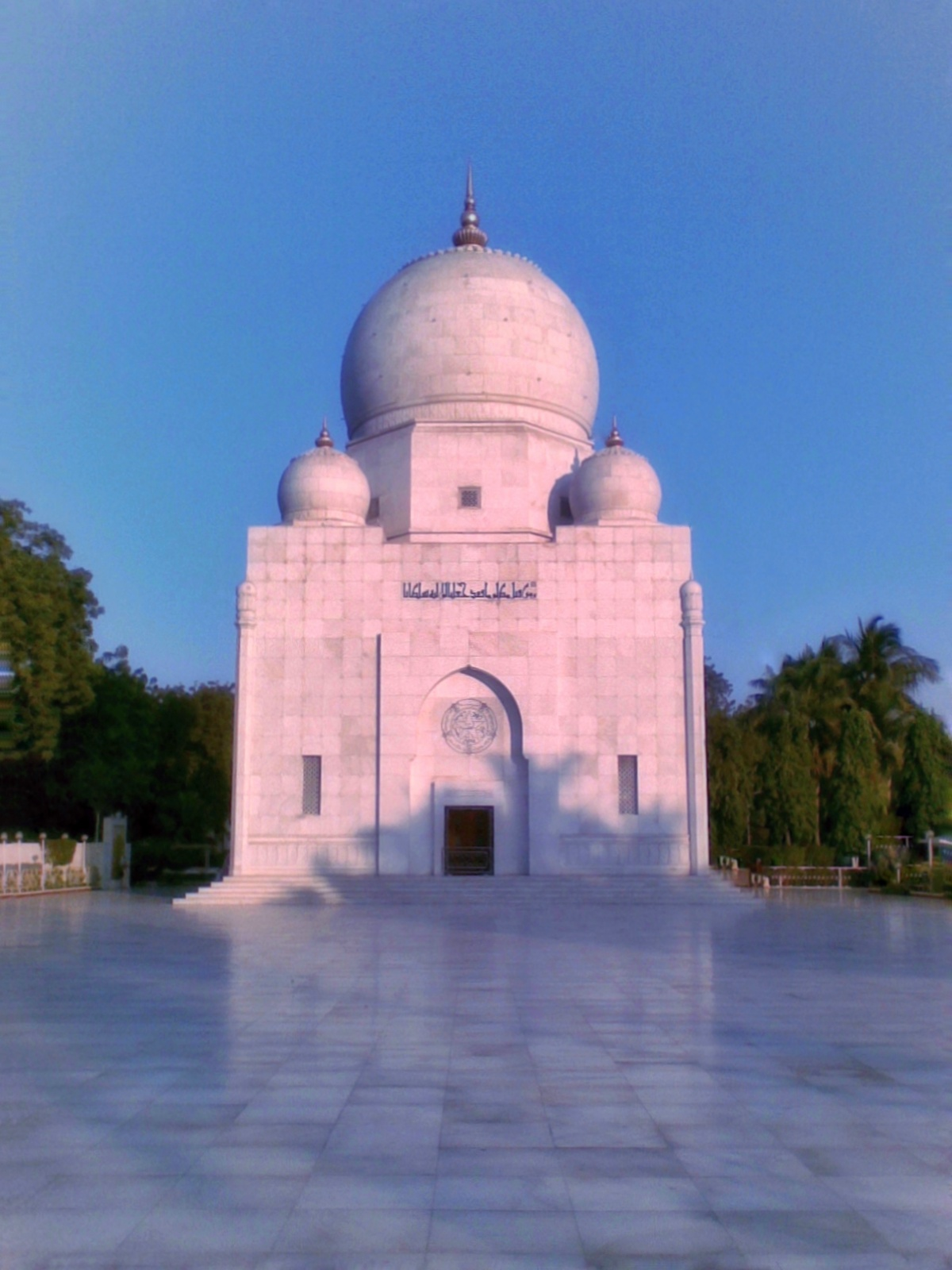 Mazar e Qutbi Ahmedabad resting place of nine of the Dua't il-Mutlaqin of the Dawoodi Bohras. Seen here is one of the five mausoleums of the Dua'ts built by Taher Saifuddin, the 51st Da'i al-Mutlaq.